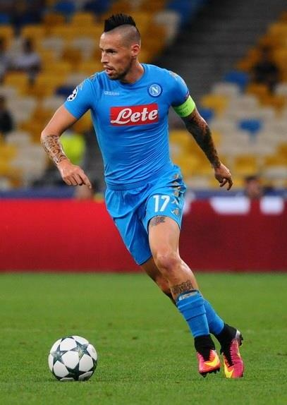 Marek Hamšík playing for Napoli in Champions League match against Dynamo Kiev